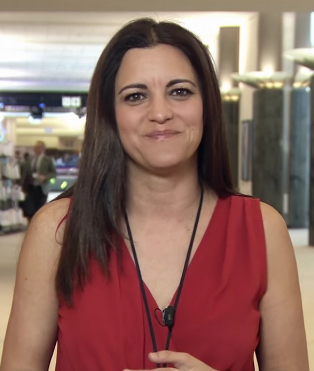 Marisa Matias in 2016